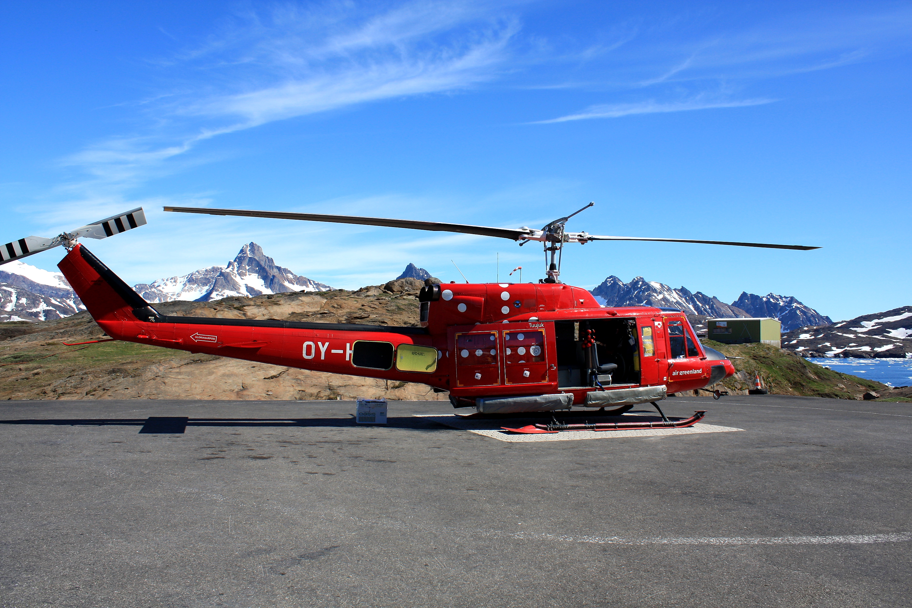 Read my Greenland Travel Guide at